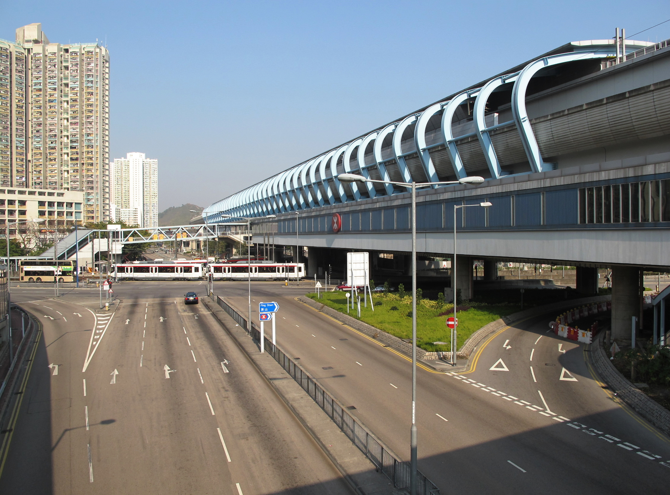 Tin Shui Wai Station 天水圍站外觀